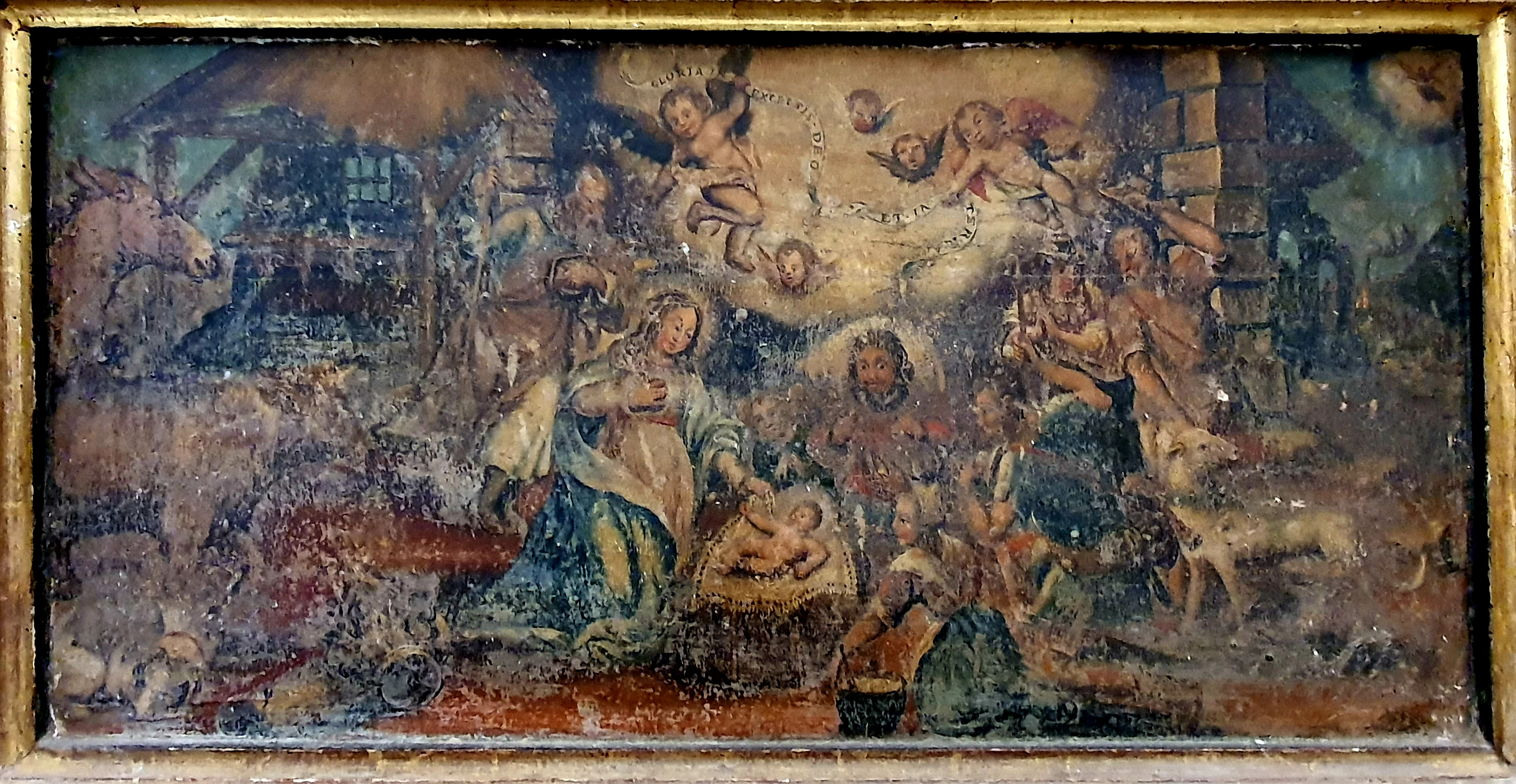 Adoration by the shepherds at the master altarpiece of the Church of Nuestra Señora de la Asunción in Villamelendro de Valdavia.